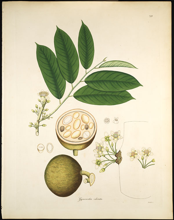 Illustration of the leaves and fruits of Gynocardia odorata from Plants of the coast of Coromandel : selected from drawings and descriptions presented to the hon. court of directors of the East India Company Volume 3 of 3 by Roxburgh et al